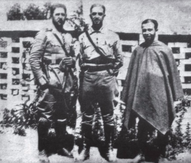 Ademar de Barros and another volunteers in Constitutionalist Revolution of 1932